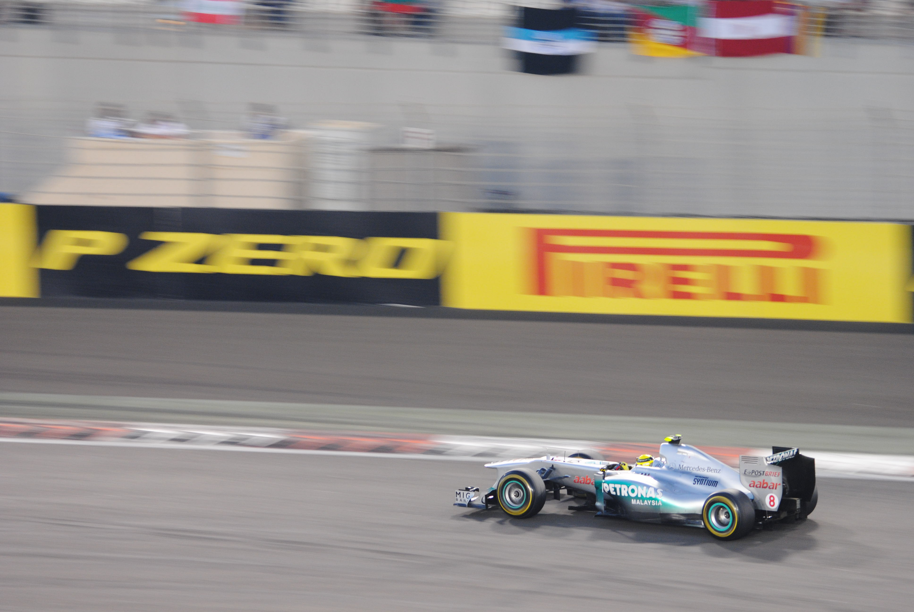 Rosberg at 2011 Abu Dhabi GP